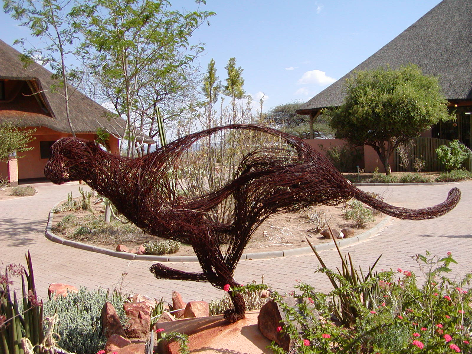 The Cheetah Conservation Fund's Field and Research Centre in Otjiwarongo, Namibia. Author: P. Tricorache.